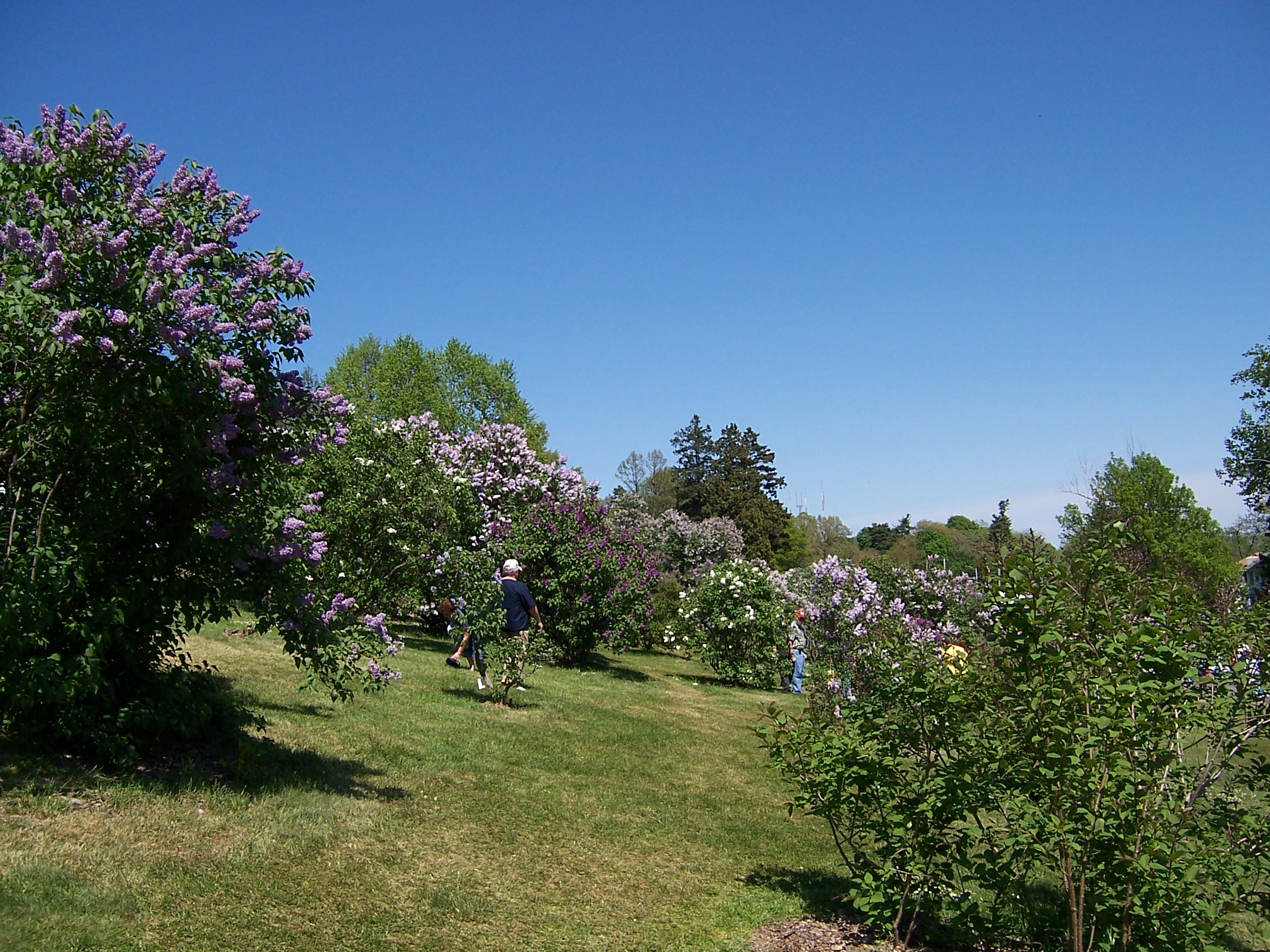 People enjoying the lilacs at the Lilac Festival at Highland Park in Rochester.